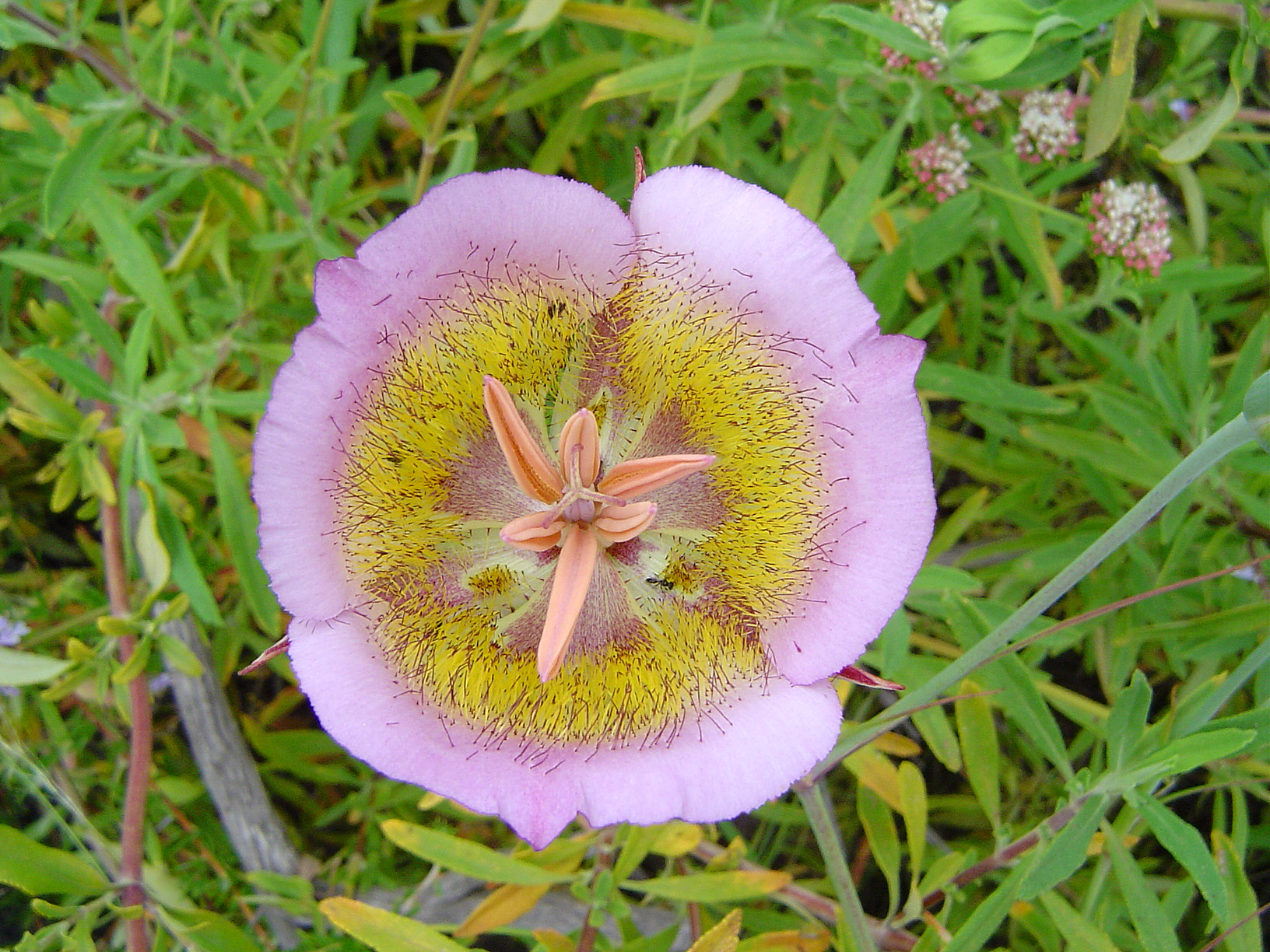 Calochortus plummerae — Plummer's Mariposa Lily. In Franklin Canyon Park, Santa Monica Mountains National Recreation Area, California.